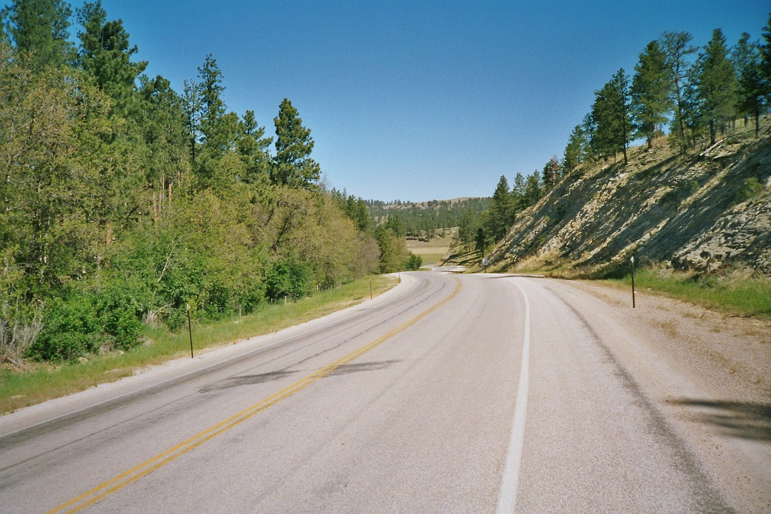 the way to Devils Tower SR24N (Crook County WY)